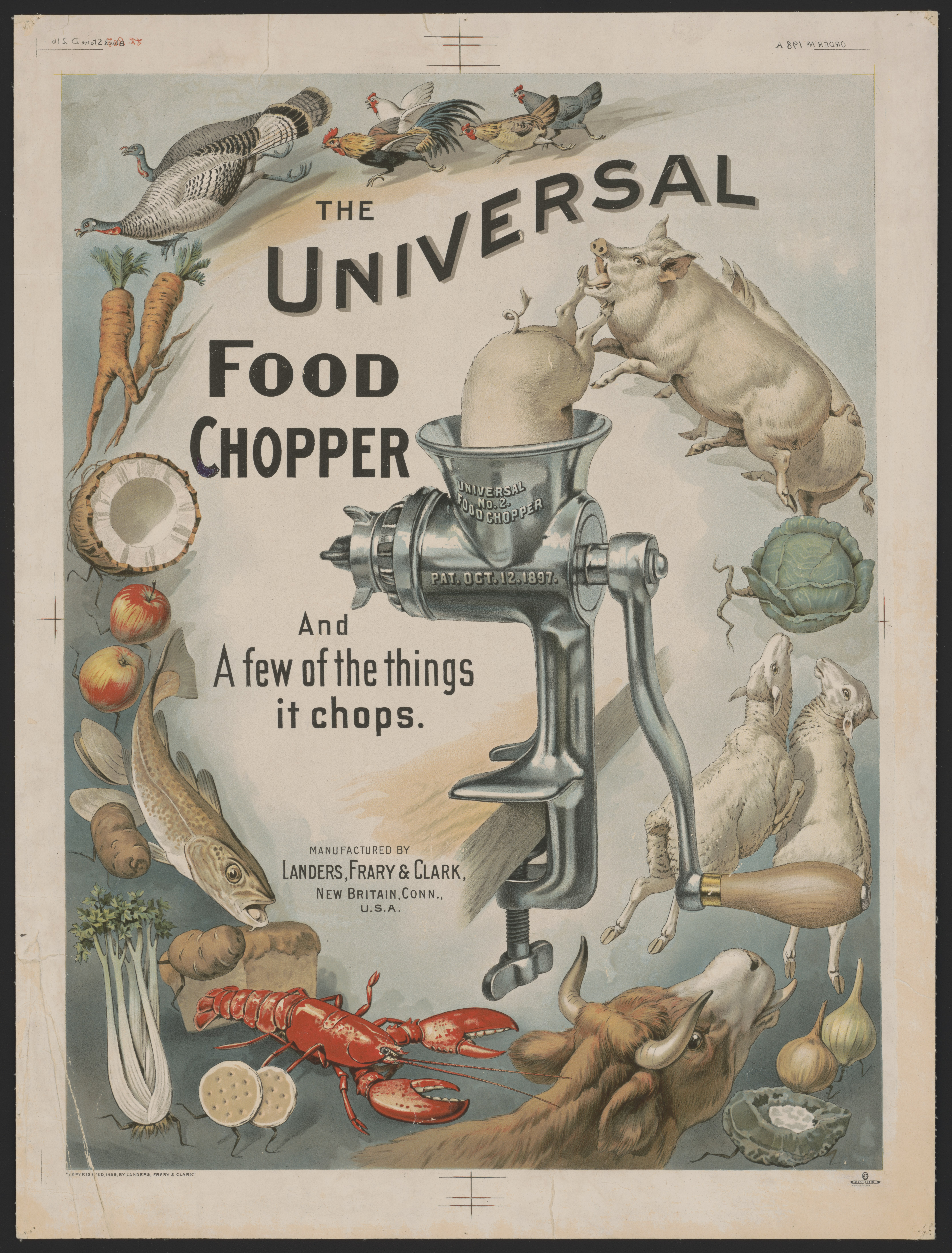 Title: The universal food chopper and a few of the things it chops Abstract: Print shows a "Universal No. 2 Food Chopper" mounted to a countertop with a swirl of animals and vegetables from top center, down the left, and across the bottom, and up the right side into the opening at the top of the chopper. Among the animals and animated vegetables "it chops" are chickens, turkeys, carrots, coconut, apples, clams, fish, potato, celery, bread, lobster, crackers, beef, cauliflower, onions, sheep, cabbage, and pork. Physical description: 1 print : color lithograph ; sheet 54.4 x 41 cm. Notes: Printed in reverse at top right: Order No. 198A.; Publication date based on copyright statement on item.; Printed in reverse at top left: Black Stone D 216.; Title from item.; Includes print-registration marks on all sides.; Forms part of: Popular graphic art print filing series (Library of Congress).; Caption continues: Manufactured by Landers, Frary & Clark, New Britain, Conn., U.S.A.